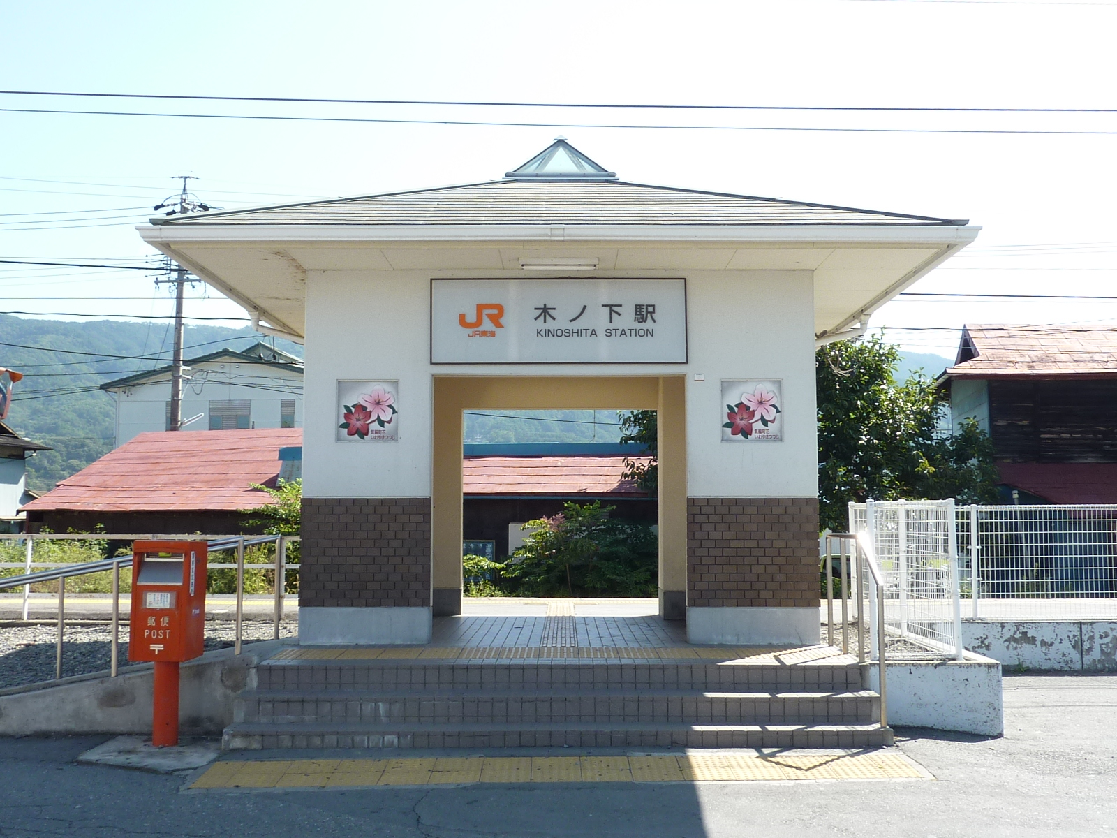 Kinoshita Station on JR Iida Line. (11945,Nakaminowa,Minowa-machi,Kamiina-gun,Nagano-ken,JAPAN)